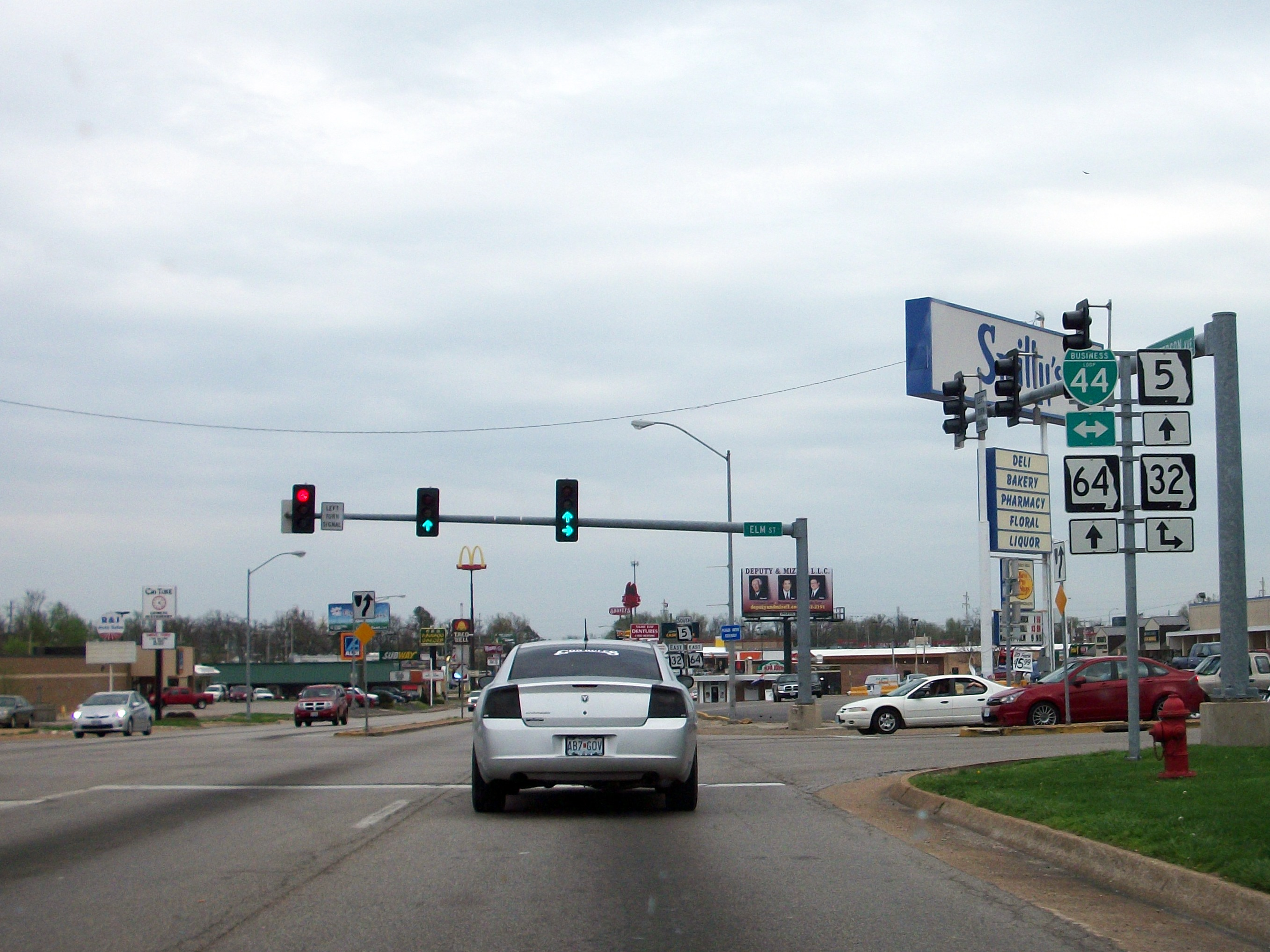 BL-44, Route 5, Route 32, Route 64 run together in Lebanon, MO